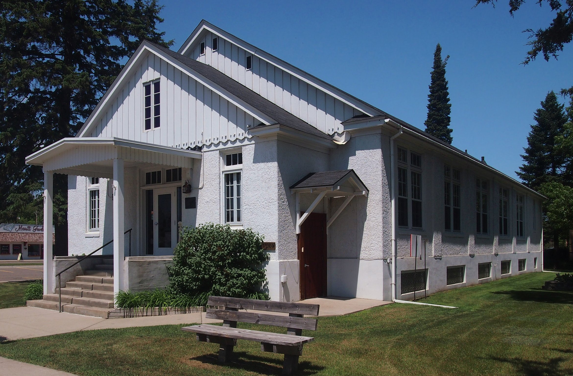 A.L. Cole Memorial Building, 4285 Tower Square, Pequot Lakes, Minnesota, USA. Viewed from the southeast.